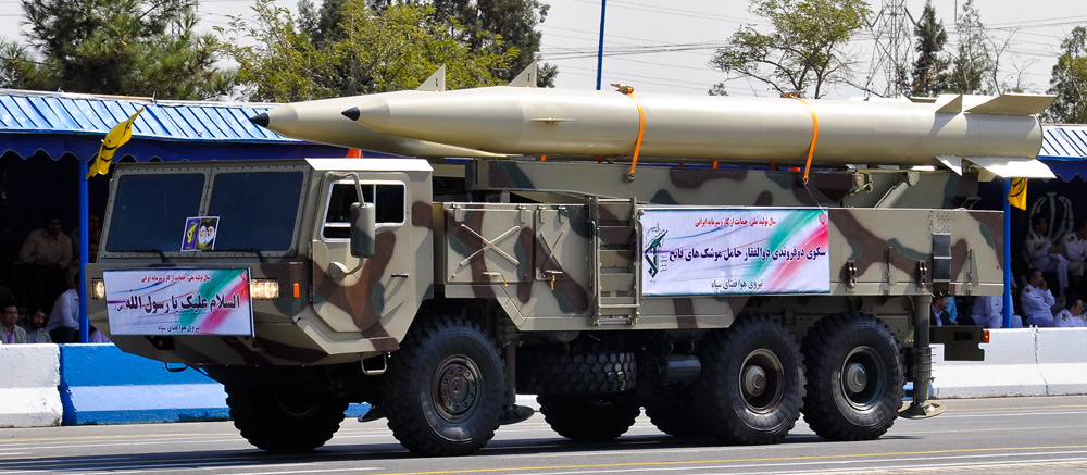 Picture of Fateh-110 missiles on the new TEL. Taken from Iranian armed forces parade in 2012